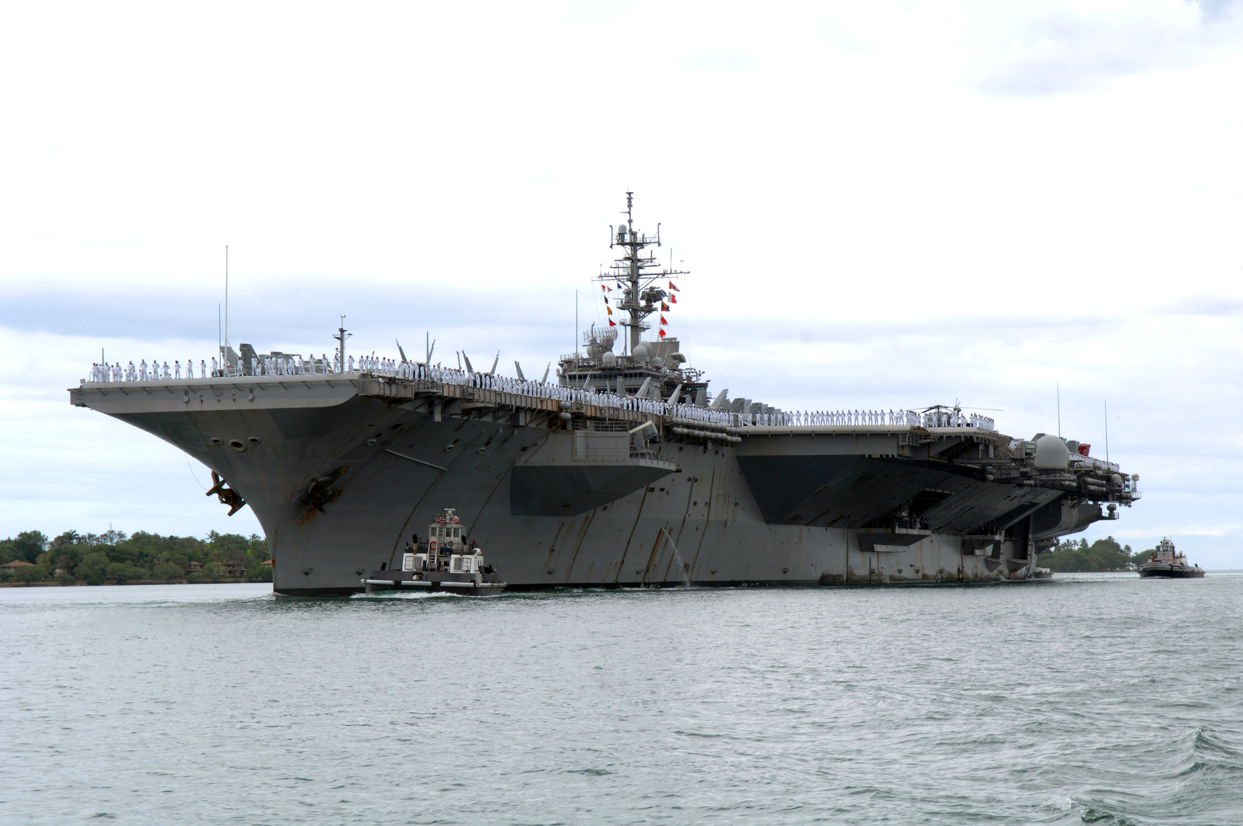 PEARL HARBOR, Hawaii (June 27, 2008) The air craft carrier USS Kitty Hawk (CV 63) arrives at Naval Station Pearl Harbor to participate in Rim of the Pacific (RIMPAC) 2008. RIMPAC is the world's largest multinational exercise and is scheduled biennially by the U.S. Pacific Fleet. Participants include the United States, Australia, Canada, Chile, Japan, the Netherlands, Peru, Republic of Korea, Singapore, and the United Kingdom. U.S. Navy photo by Mass Communication Specialist 1st Class Mark Rankin (Released)